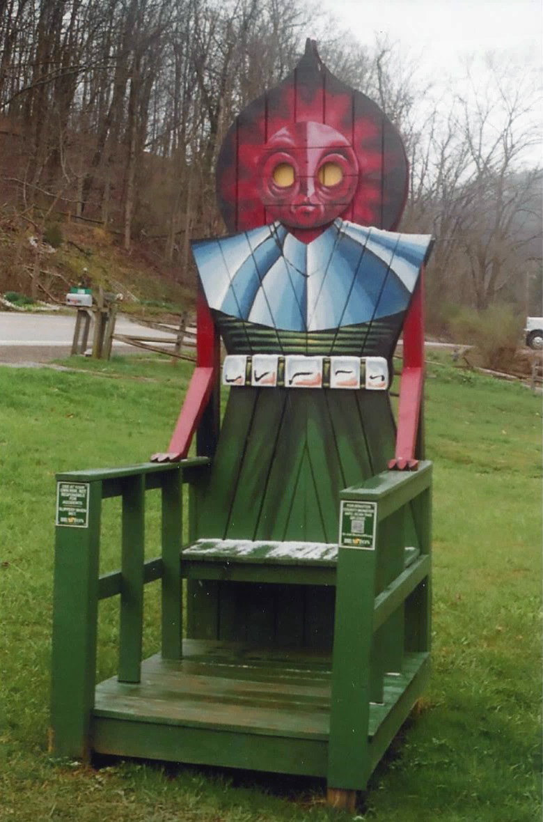 Chair on the lawn by the town hall welcomes visitors to Flatwoods, WV, near the location where the Flatwoods Monster was reported to have been seen.